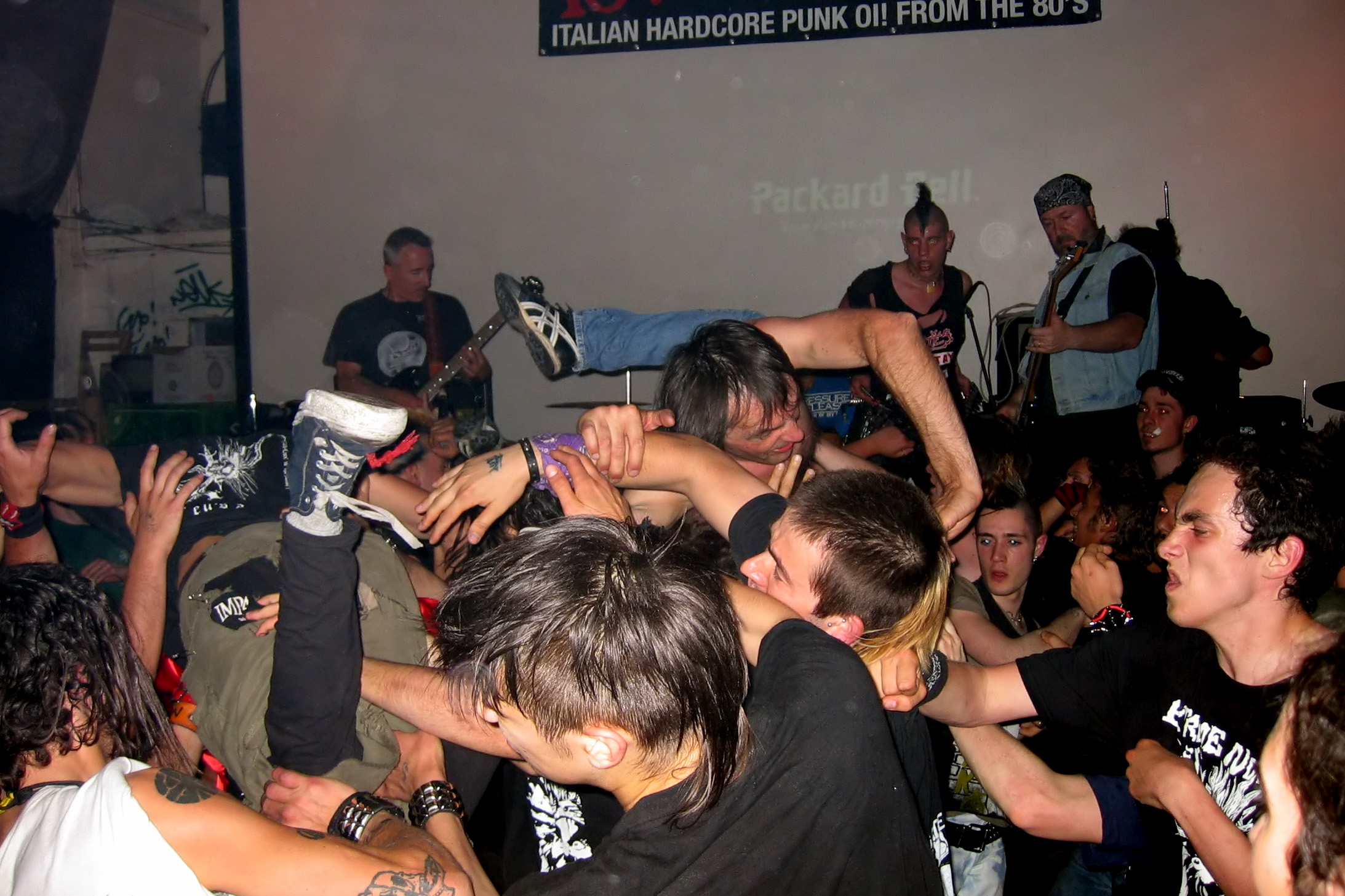 People dancing pogo and stage diving during a concert.